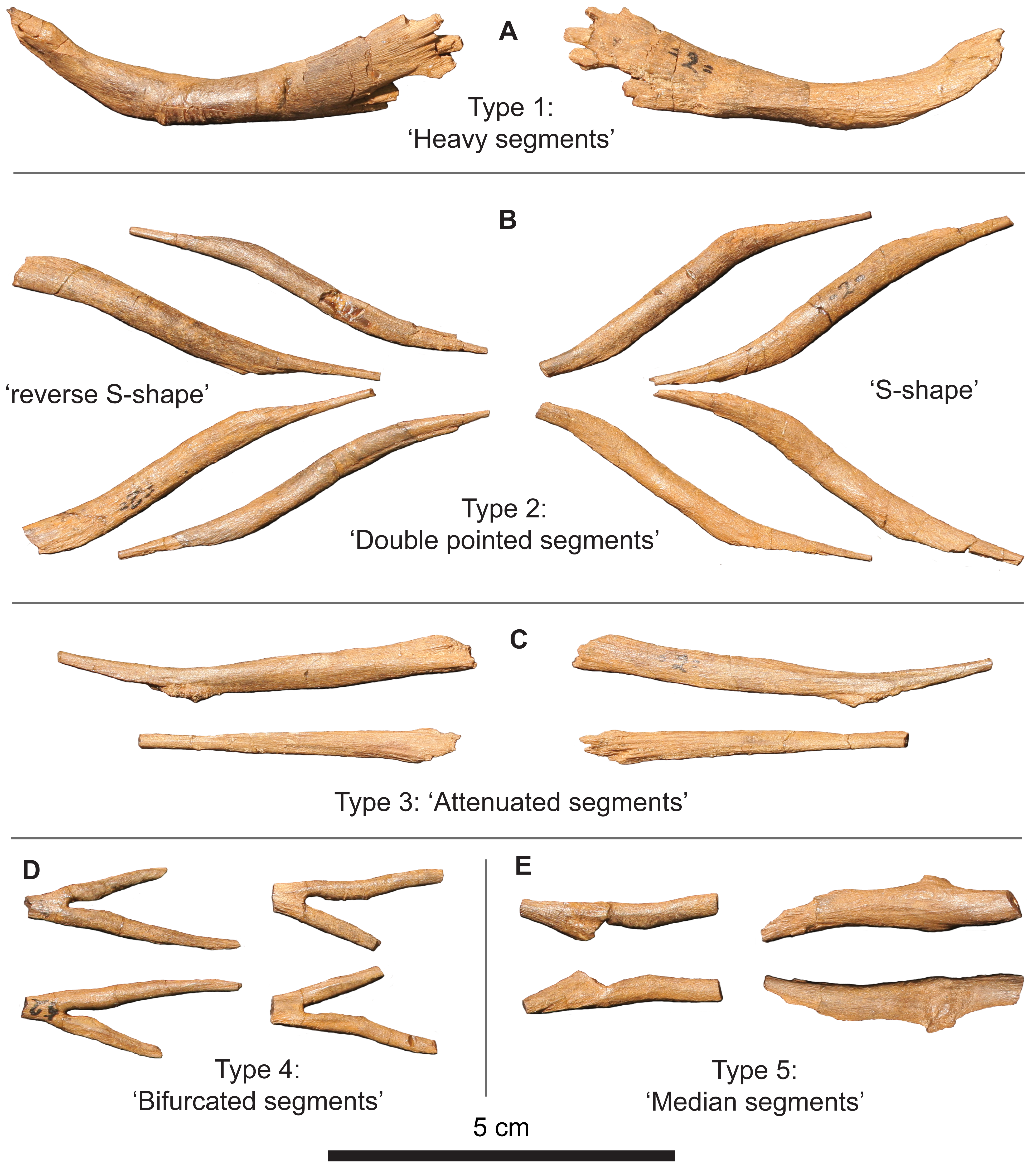 Elements typifying the five tendon morphotypes of Gilmore (Stegoceras validum) in internal and external views. A) Type 1 – ‘Heavy segments’ – “Large, heavy, sinuous segments with more or less flattened ends that are sometimes grooved with ray-like points” ([3]:31). These show right and left symmetry. One element reflected in the vertical plane: left; external view, right; internal view. B) Type 2 – ‘Double pointed segments’ – “Smaller, subround, sinuous segments having both ends slightly flattened and slenderly pointed” ([3]:32). Two elements of each ‘side’ are shown, reflected in the horizontal plane: upper; external view, lower; internal view. C) Type 3 – ‘Attenuated segments’ – “Of about the same size as the second, subround, sinuous, with one flattened end, the other drawn out into a slender attenuated rod-like process” ([3]:32). Two elements reflected in the vertical plane and of uncertain orientation. D) Type 4 – ‘Bifurcated segments - Rare (only two elements known). “Small, with long bifurcated divergent rounded processes at one end, with the other end unknown” ([3]:32). Two elements reflected in the horizontal plane: upper; external view, lower; internal view. E) Type 5 – ‘Median segments’ - Also rare. “Three small bones that are suggestive of being bilateral median segments, but the fact that both are asymmetrical would rather negative this suggestion” ([3]:32). These were incorrectly labeled as Type 4 four in Plate 14 of [3]. Two elements reflected in the horizontal plane and of uncertain orientation.